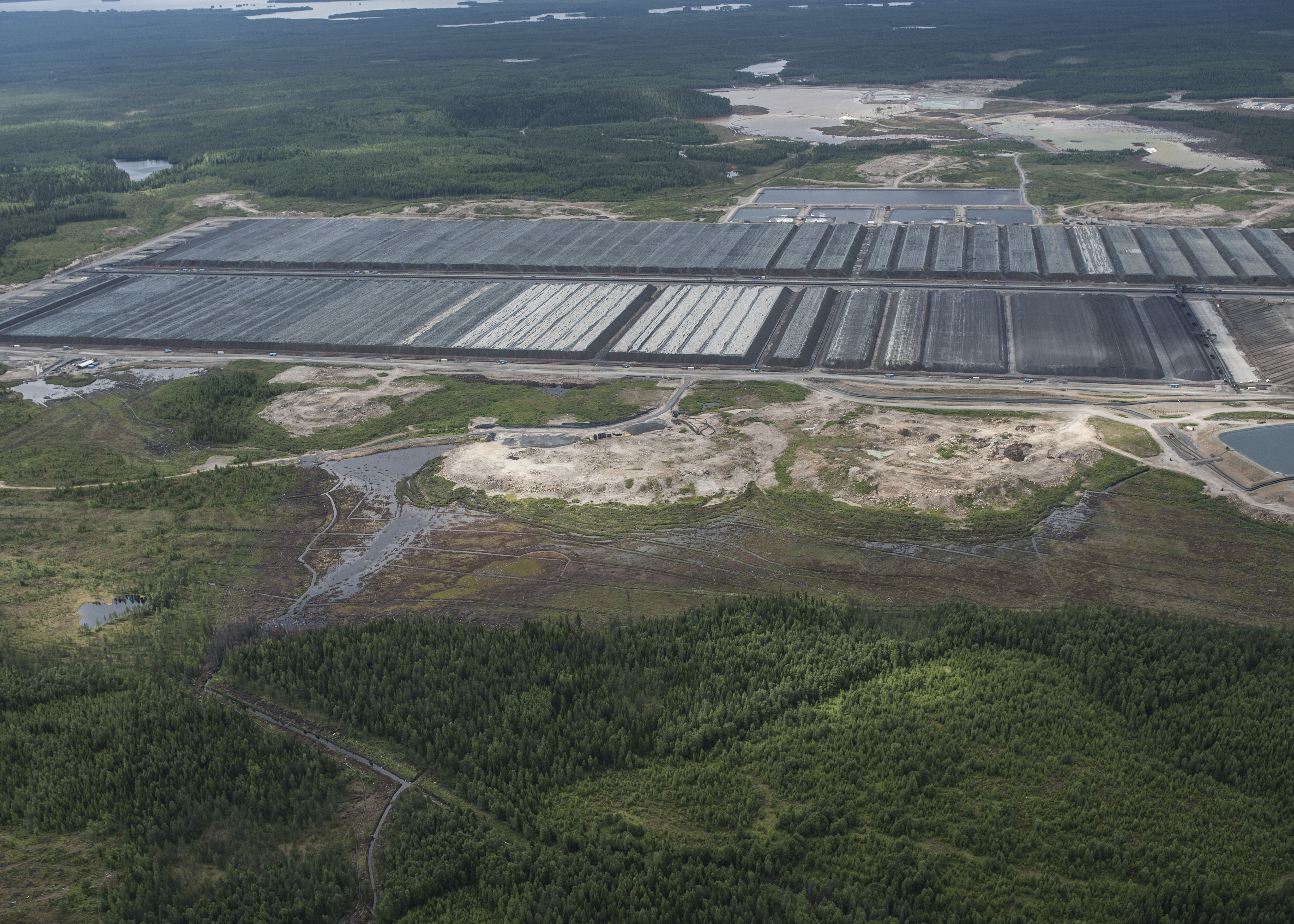 Aerial photograph of Talvivaara mine in Sotkamo, Finland. June 2013.